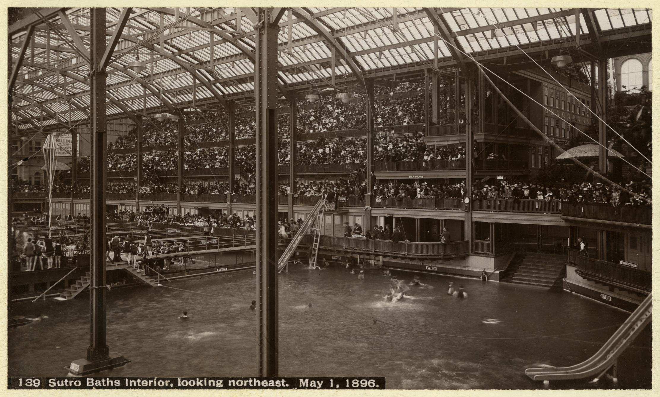 Sutro Baths Interior, looking northeast, May 1, 1896